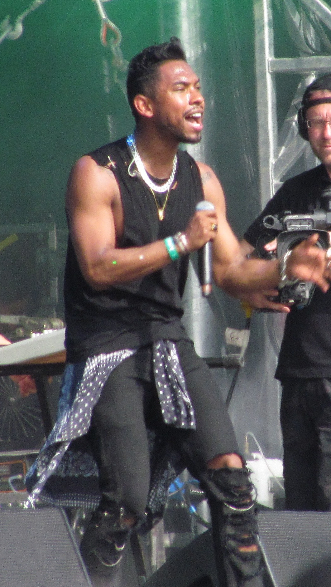 Singer Miguel in 2013